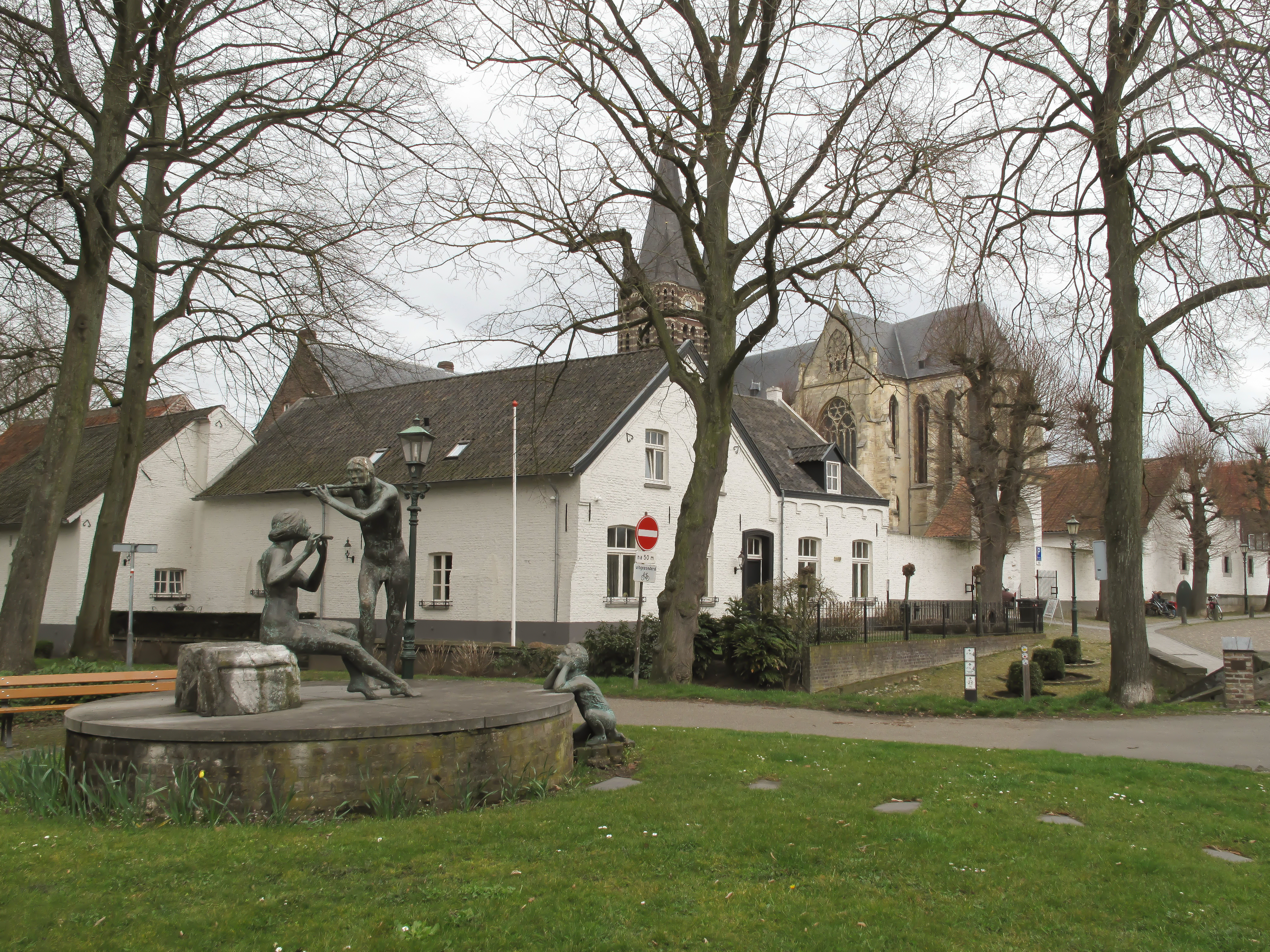 Thorn, scultuire with church (de Sint Michaëlkerk) in the background